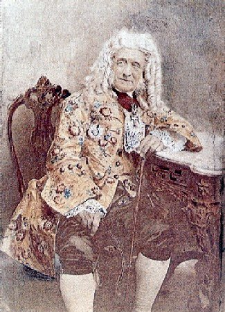 John Alexander Fladgate (1809-1901), an English port wine merchant, created Baron of Roêda by King Luís I of Portugal in 1872.